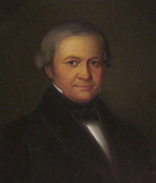 Listen Rate translation New! Hold down the shift key, click, and drag the words above to reorder. Dismiss Google Translate for my:SearchesVideosEmailPhoneChatBusiness About Google TranslateTurn off instant translationPrivacyHelp Johann Weißheimer II, oil painting 1854 by Hebel.